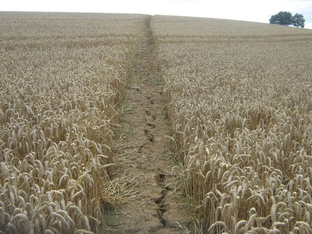 Greensand Way Link path over hill. This link path leads from Lambden Road, Pluckley to Station Road and Pluckley Railway Station. The main Greensand Way (long distance path) passes through Pluckley to little Chart or Egerton. This link section passes through a wheat field over a hill.